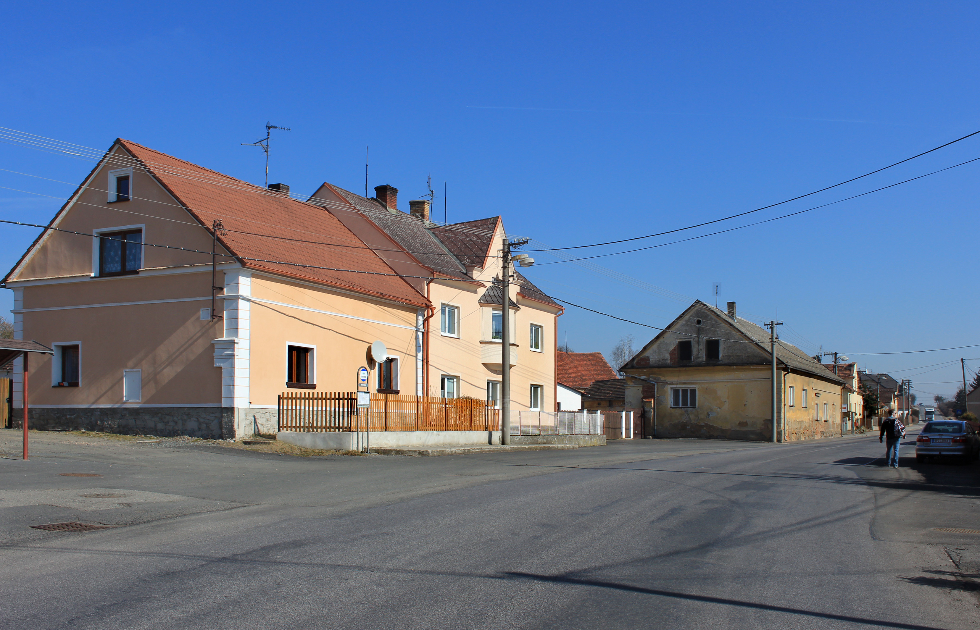 Road to Plzeň in Sulislav, Czech Republic.